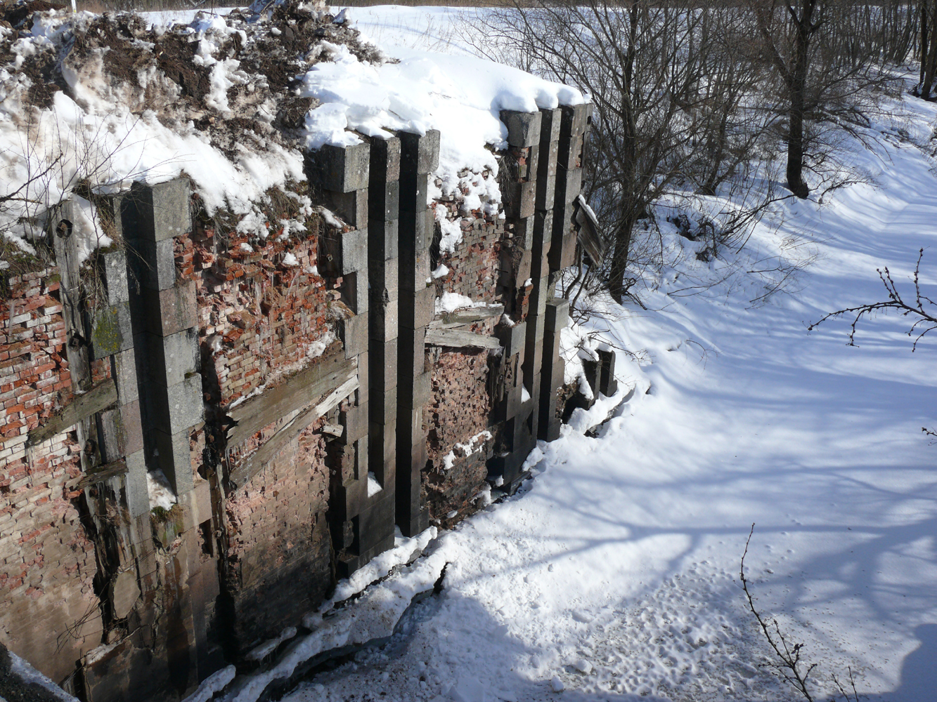 Visherskiy canal between Msta river and Vishera river near Velikiy Novgorod, Russia